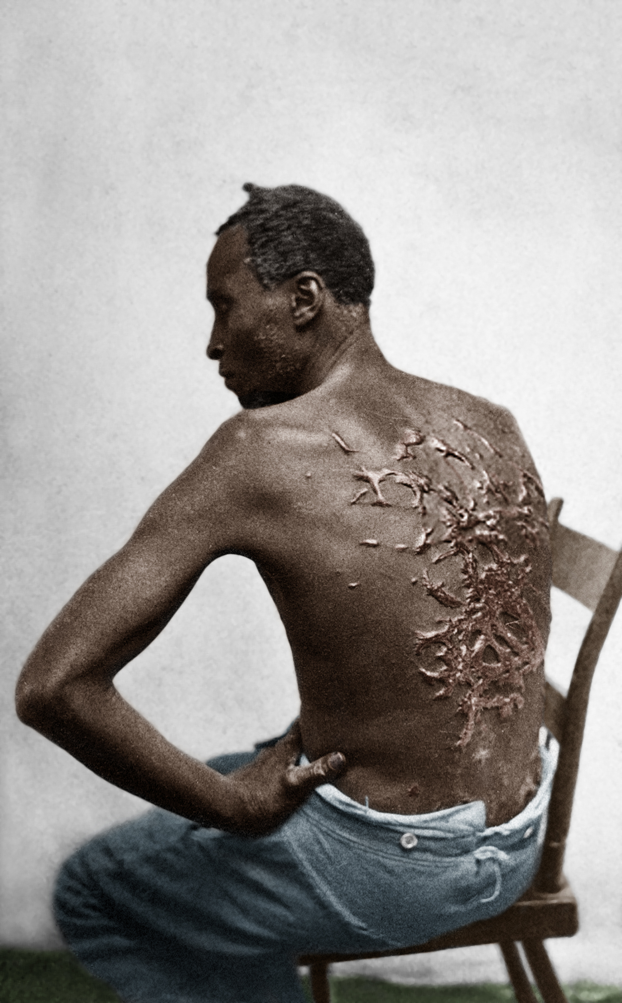 A colourised version of the iconic American civil war photo of 'Whipped Peter'.